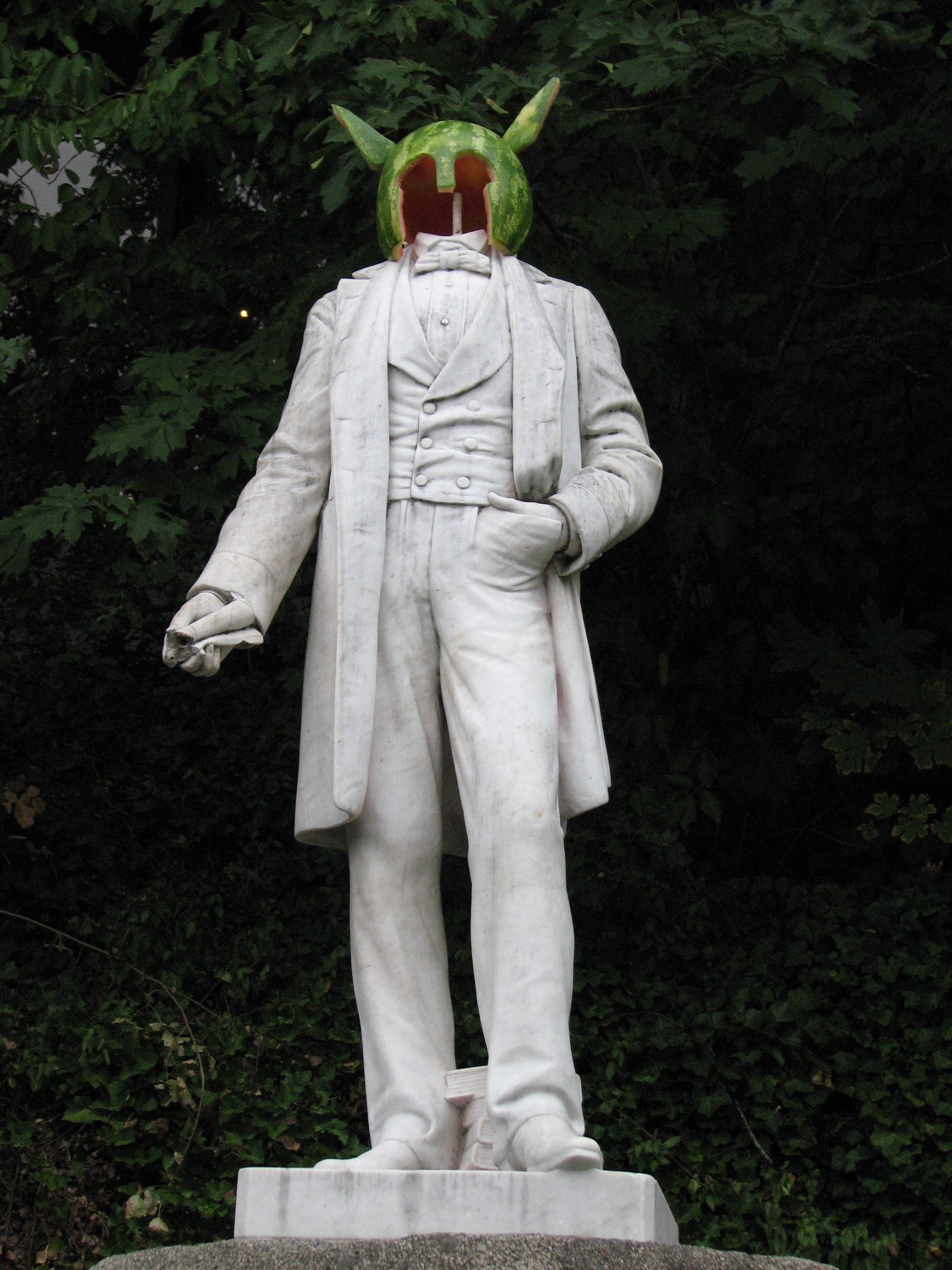 north america, Lithia Park, Abraham Lincoln, Watermelon, Hat, road trip, the west, pacific northwest